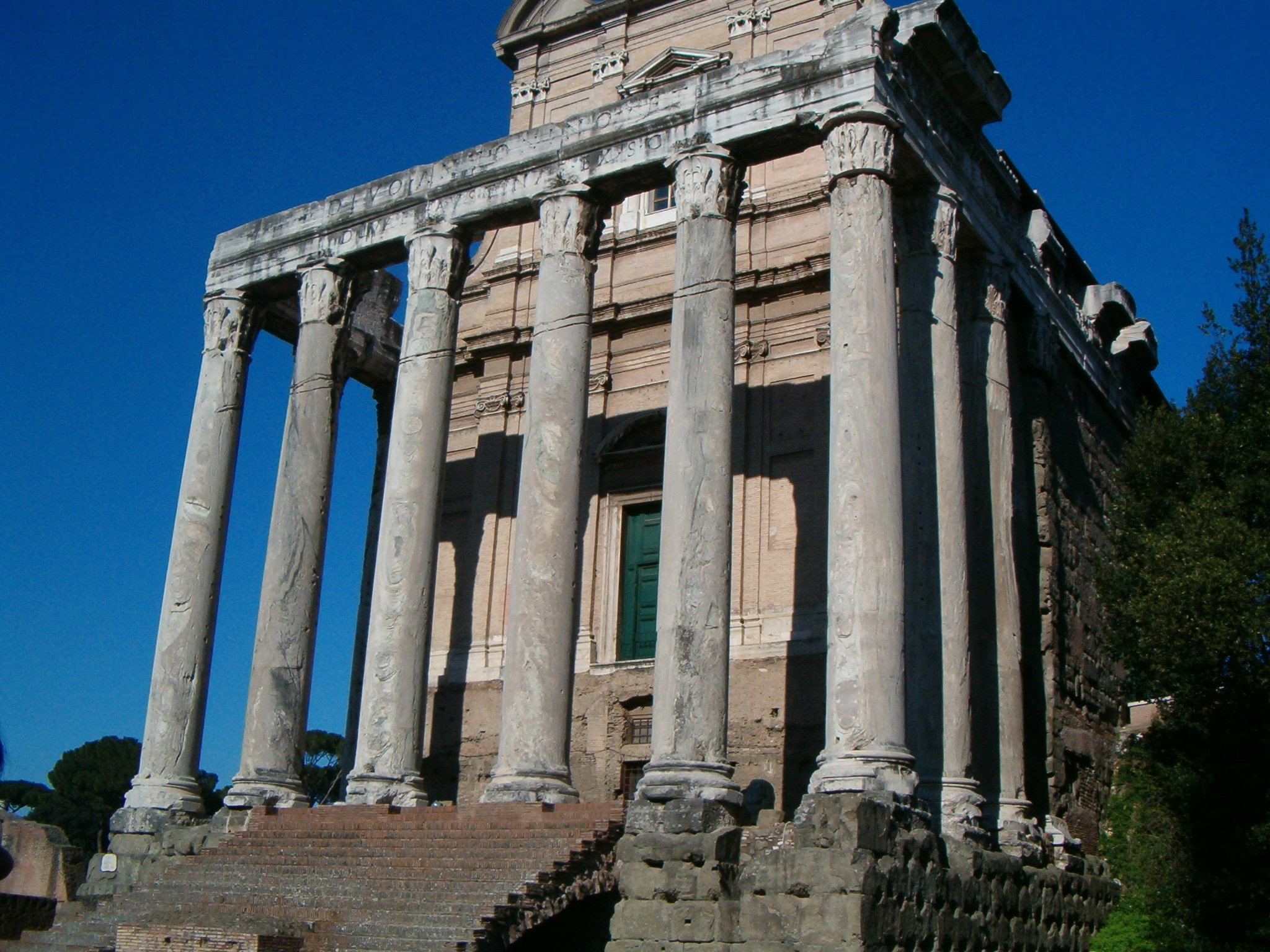 The Temple of Antoninus and Faustina is located in the Forum Romanum in Roma; it was later restored as a christian church, the Basilica of San Lorenzo in Miranda